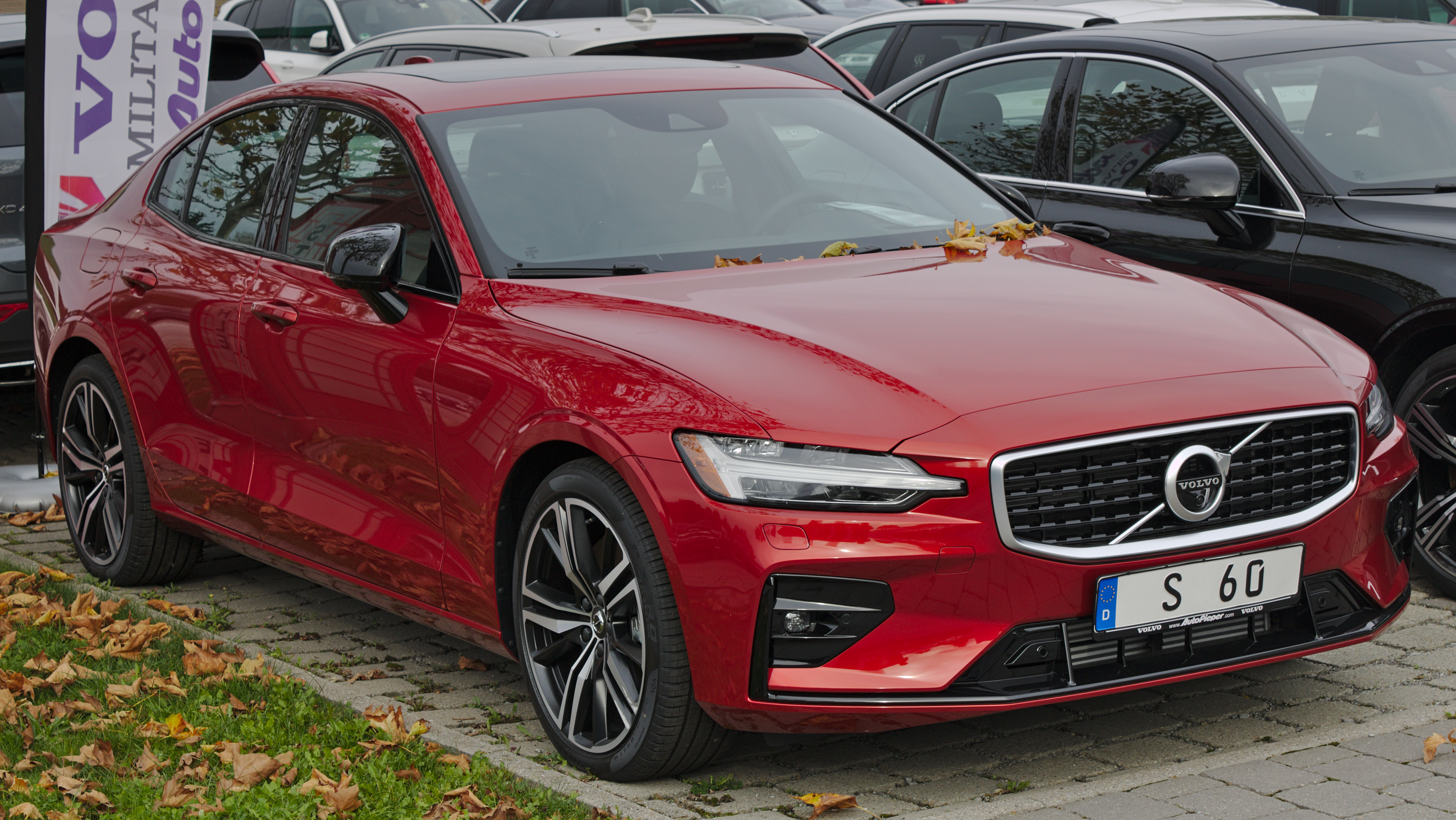 Volvo_S60_(3rd_generation) in Stuttgart-Vaihingen